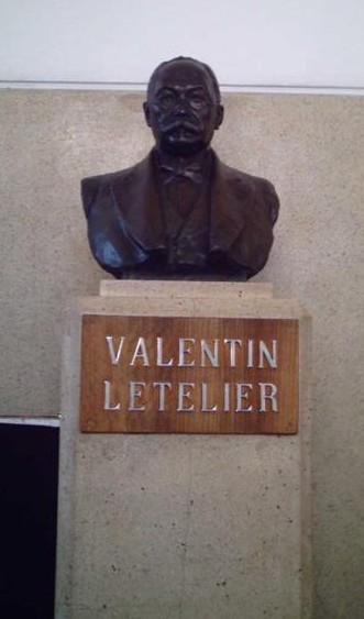 Valentín Letelier's sculpture